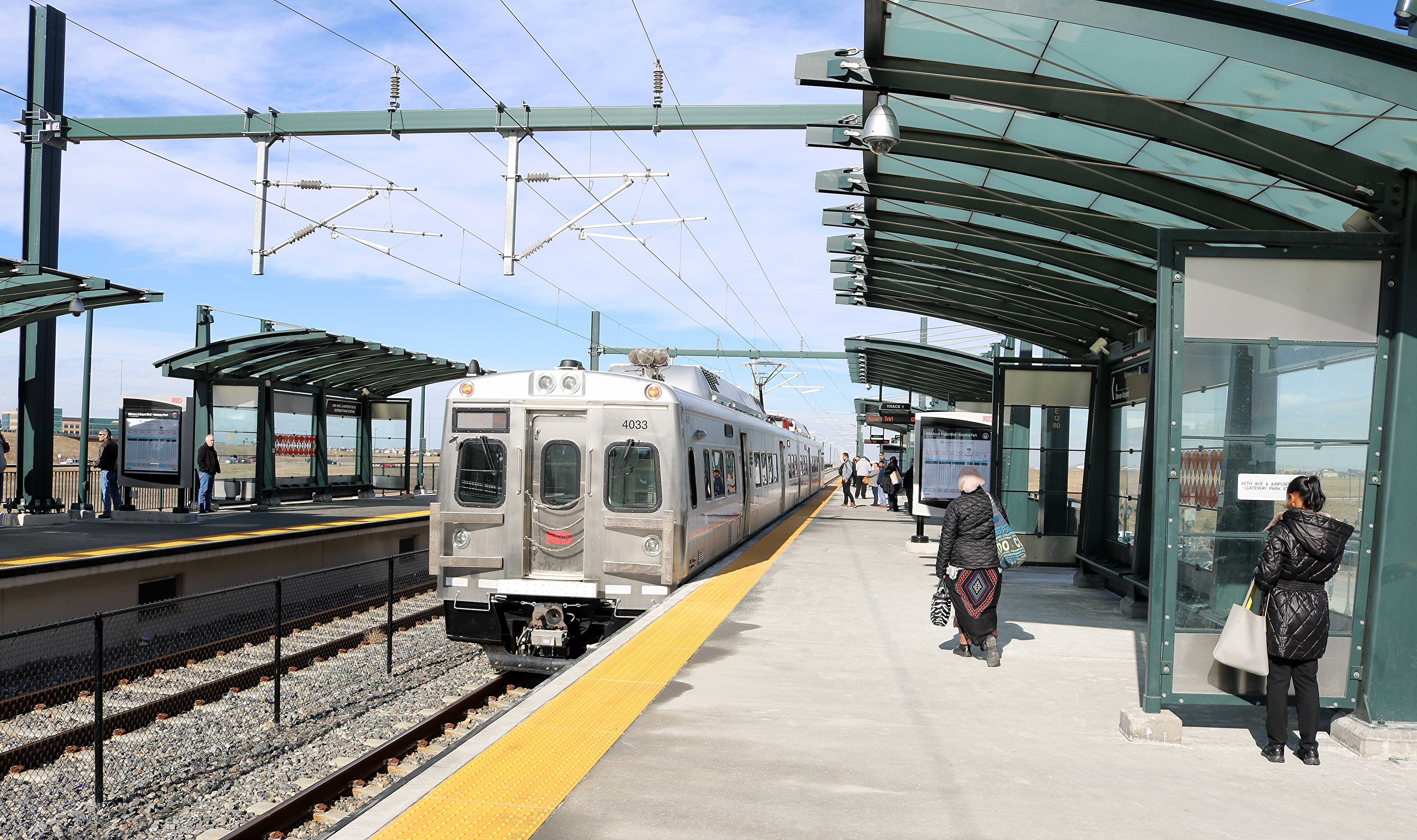 The 40th Ave & Airport Blvd–Gateway Park RTD A-Line station, located at 3900 North Salida Street in Aurora, Colorado.